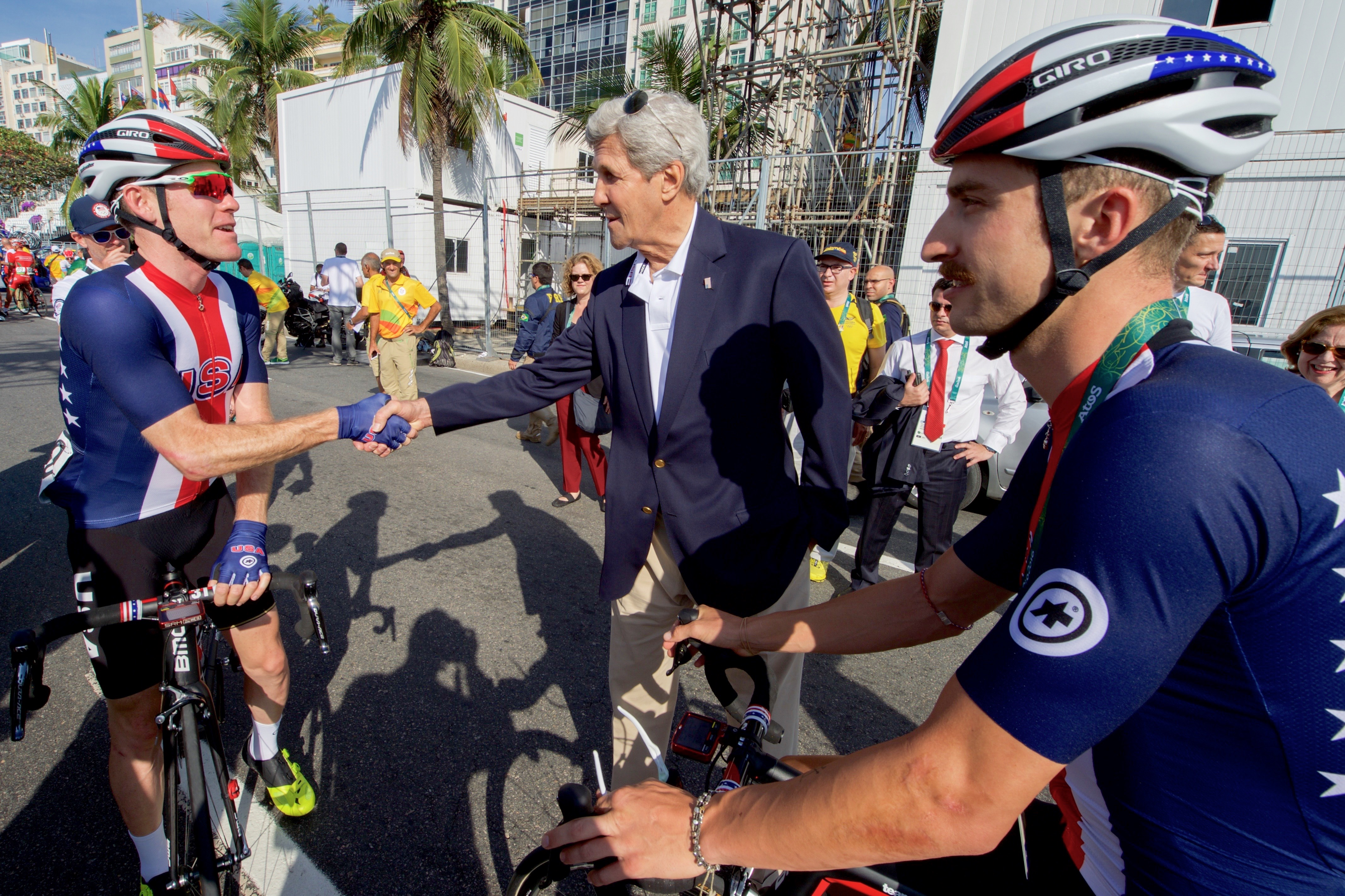 U.S. Secretary of State John Kerry shakes hands with U.S. men's road cycling competitor Brent Bookwalter - as teammate Taylor Phinney looks on - along the Copacobana beach in Rio de Janeiro, Brazil, as the Secretary and his fellow members of the U.S. Presidential Delegation tour the men's Olympic cycling area before the start of a race on August 6, 2016. [State Department Photo/ Public Domain]